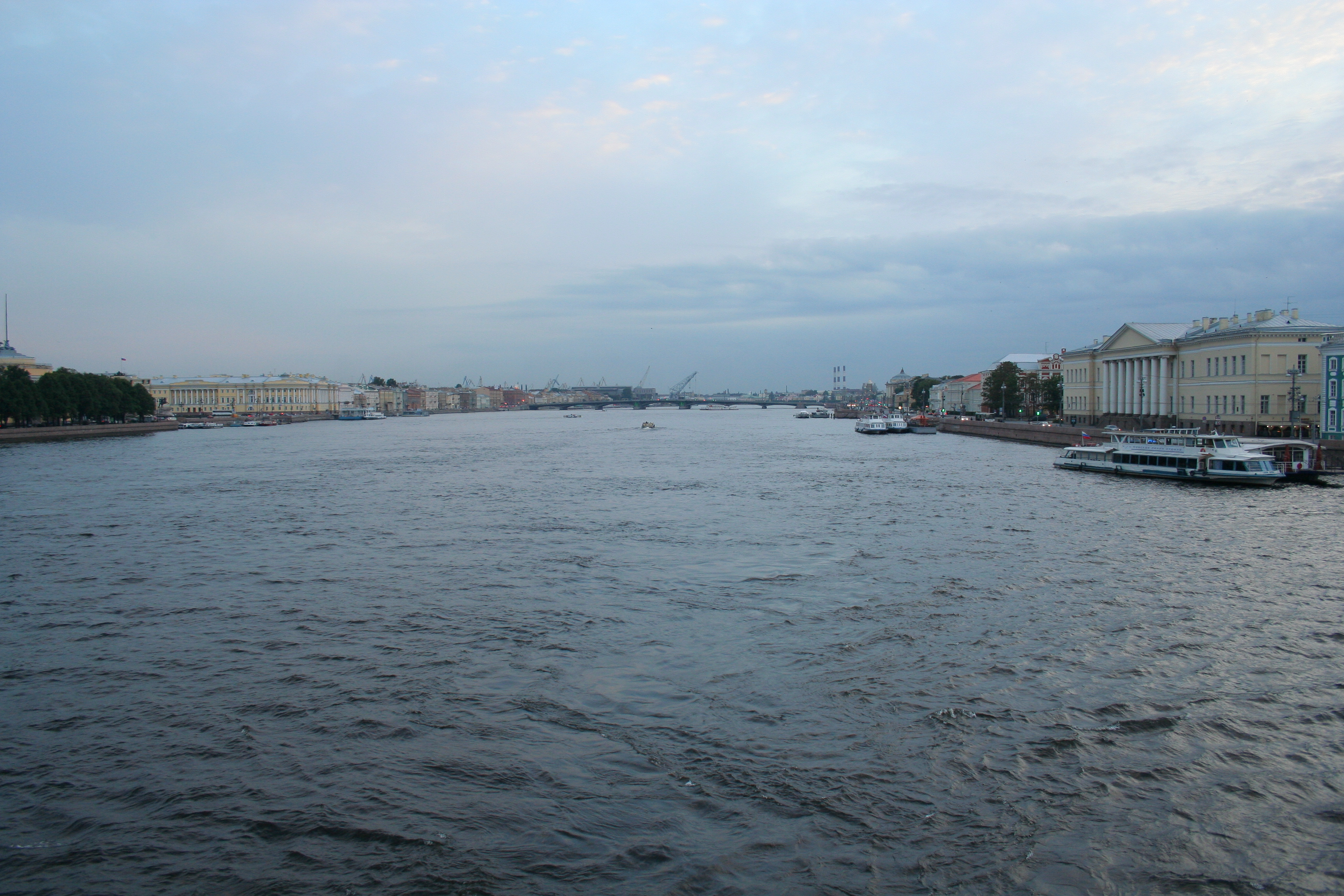 Bolshaya Neva in Saint Petersburg, view from Palace Bridge.